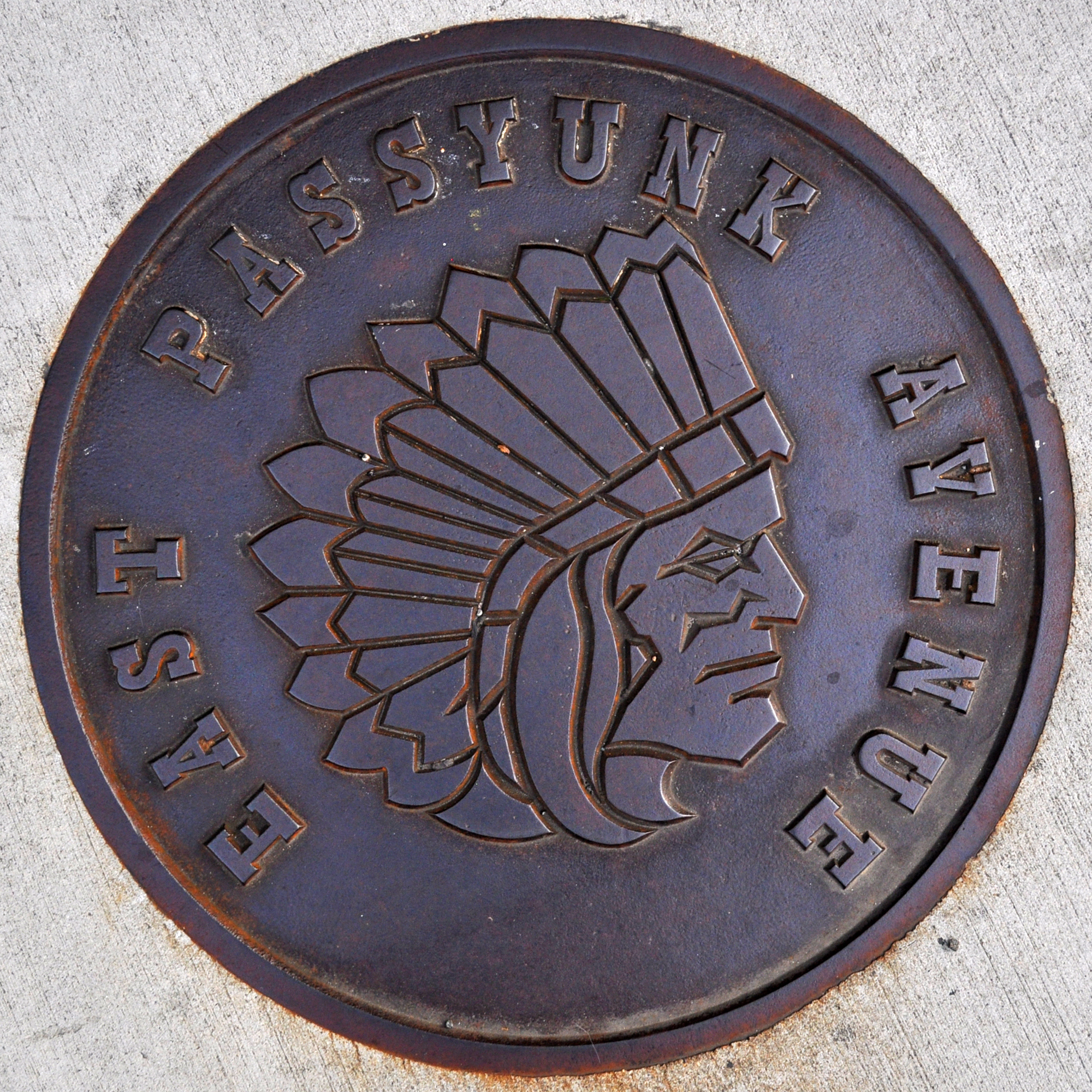 East Passyunk Avenue cast iron medallion sidewalk inset. The medallions, 30" round, appear at intervals along the sidewalks of East Passyunk Avenue from Tasker to Broad Streets, and promote the East Passyunk Shopping District.